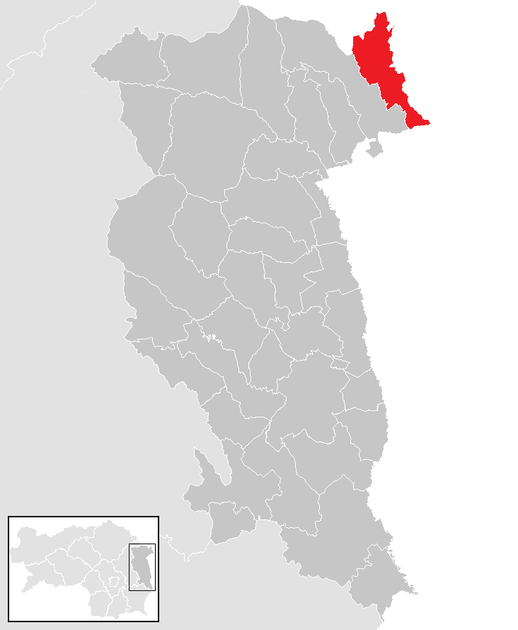 district Hartberg-Fürstenfeld